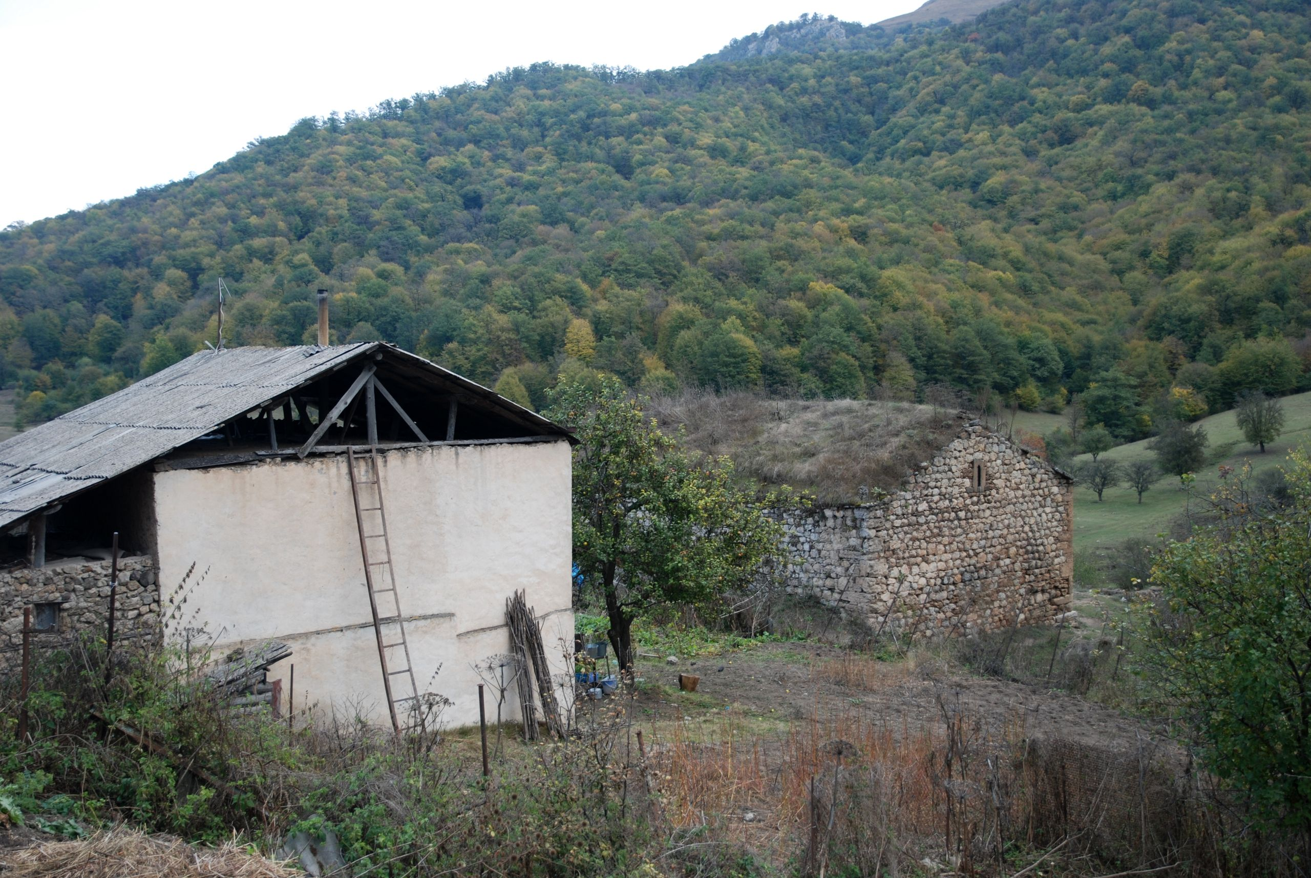 Tandzaver, south of Tatev